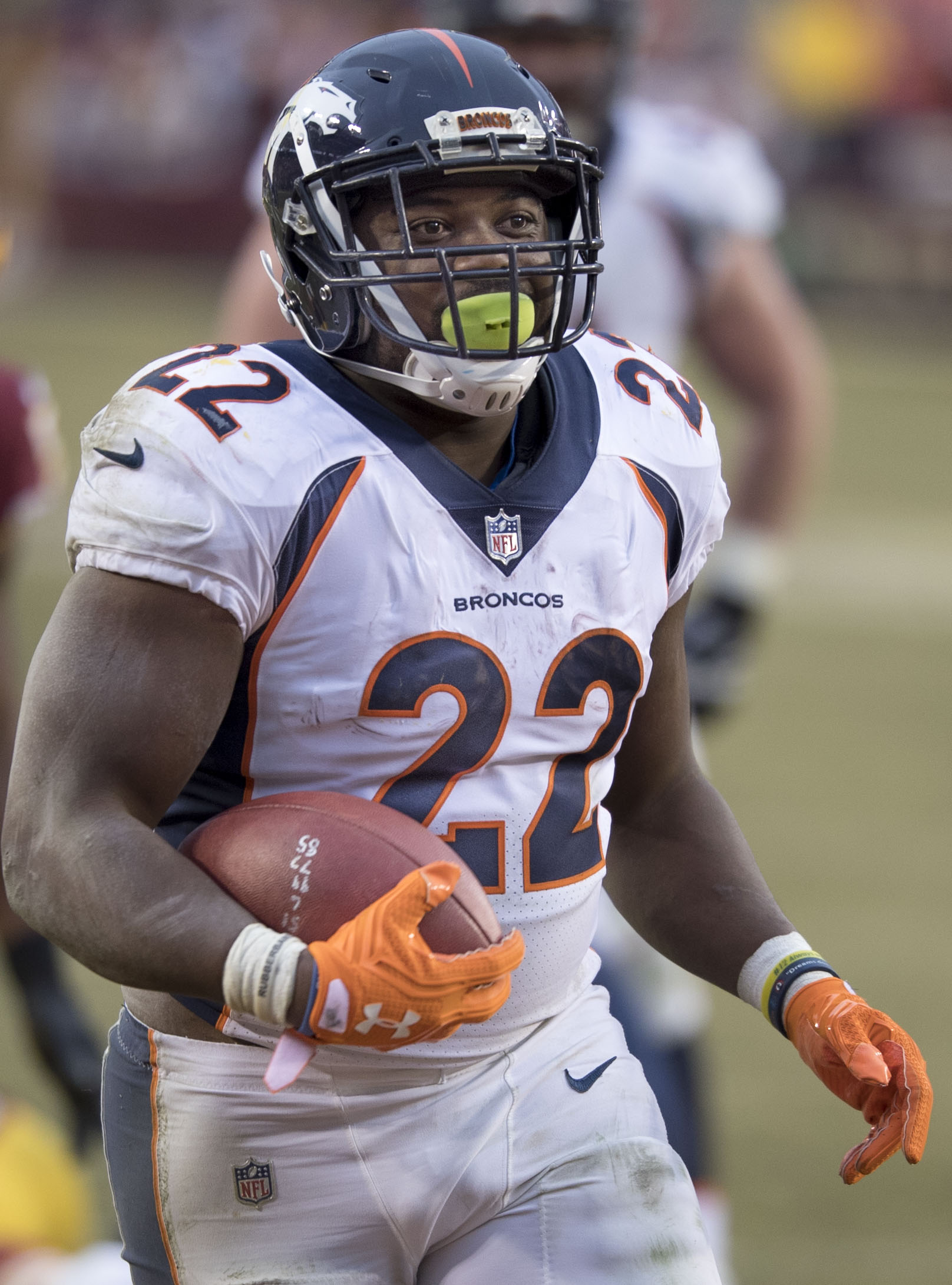 Broncos at Redskins 12/24/17